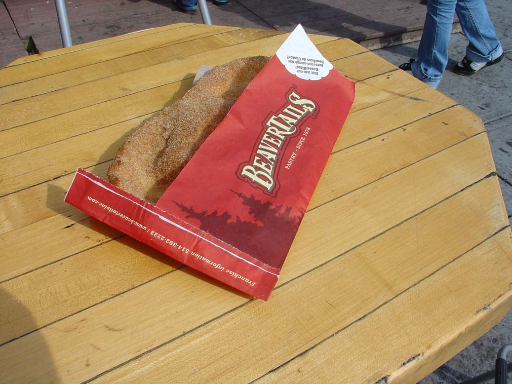 Fried dough Photograph taken at Feast of St. Joseph's, Malden, MA on 6/13/2004. Copyright ©2004 Daniel P. B. Smith. Licensed under the terms of the Wikipedia copyright.